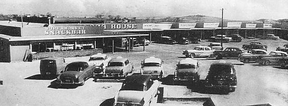 Plaza House Shopping Center circa 1955